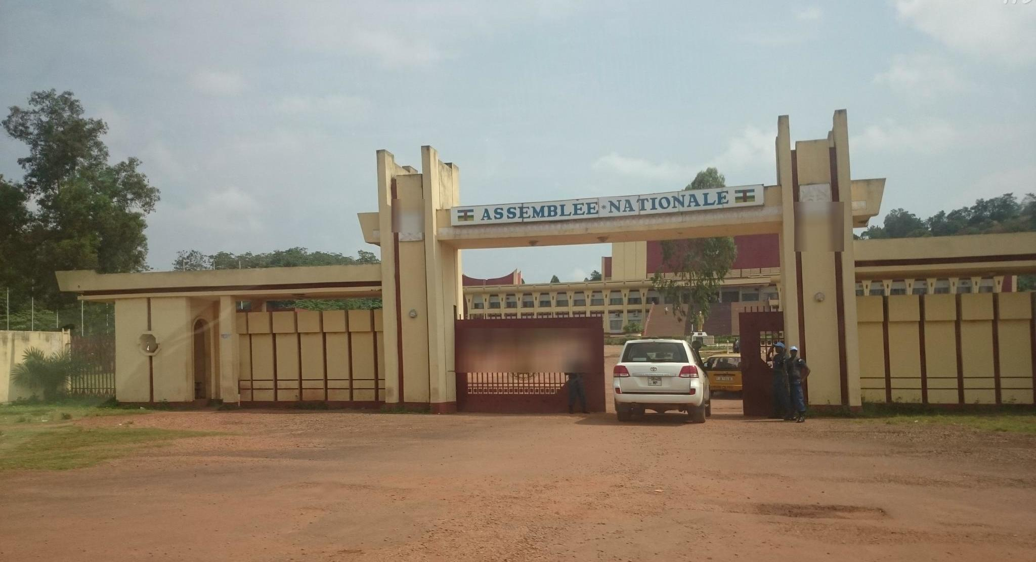 National Assembly of the Central African Republic Building in Bangui. RN2, Bangui